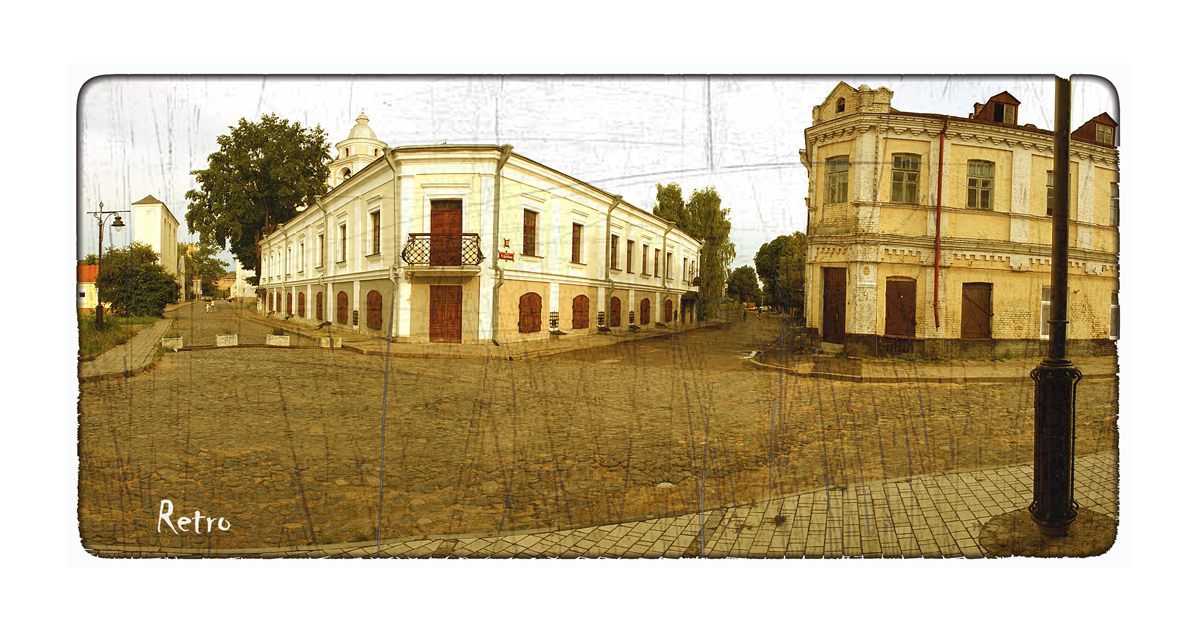 street intersection in Lutsk